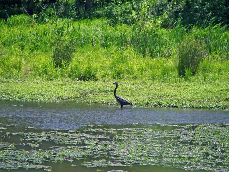 A crane in Lake Conestee Nature Park